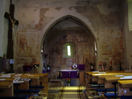 Church of Bátonyterenye, Maconka. The sanctuary.